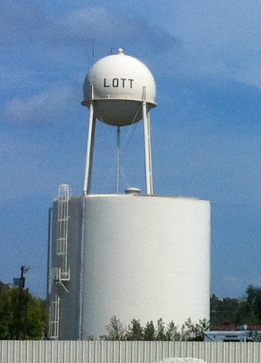 Water tower in Lott Texas